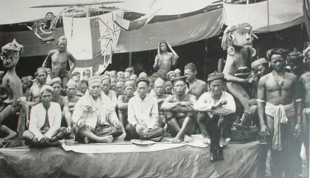 Aboriginal